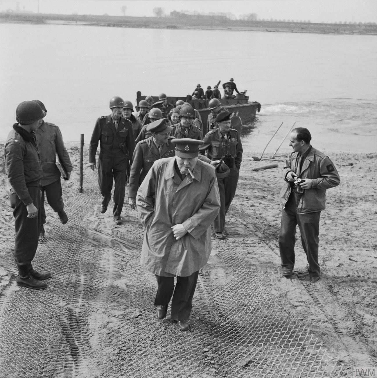 Churchill on the east bank of the Rhine, south of Wesel.